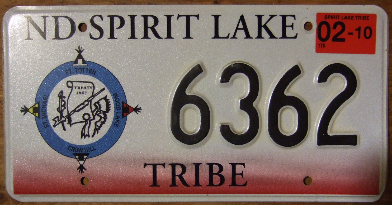 NORTH DAKOTA 2010 ---SPIRIT LAKE INDIAN TRIBE LICENSE PLATE, number 6362